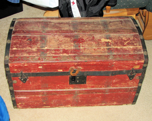 Example of an antique trunk, made by the M.M. Secor Northwestern Trunk and Traveling Bag Manufactory of Racine, Wisconsin. Photo taken by author on 24 December 2008.